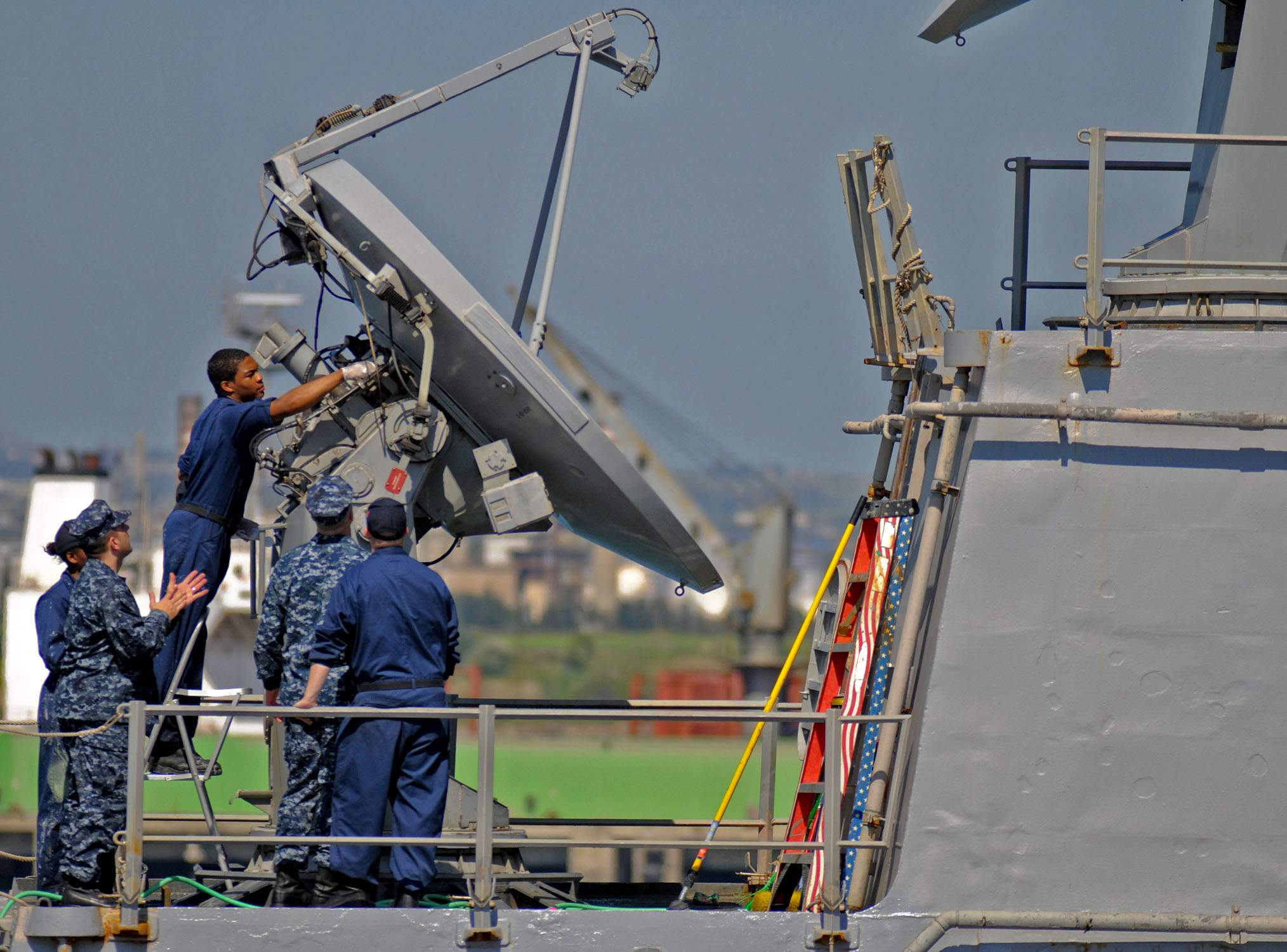 110324-N-AQ172-088 AUGUSTA BAY, Italy (March 24, 2011) Fire Controlman 3rd Class Michael Bridges conducts preventive maintenance on an SPG-62 illuminator of the MK-99 Aegis fire control system aboard the Arleigh-Burke class guided-missile destroyer USS Stout (DDG 55). Stout is in Augusta Bay loading supplies to support Joint Task Force Odyssey Dawn. Joint Task Force Odyssey Dawn is the U.S. Africa Command task force established to provide operational and tactical command and control of U.S. military forces supporting the international response to the unrest in Libya and enforcement of United Nations Security Council Resolution 1973. (U.S. Navy photo by Mass Communication Specialist 2nd Class Daniel Viramontes/Released)